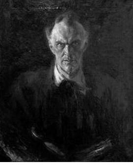 Self-portrait (grayscale)